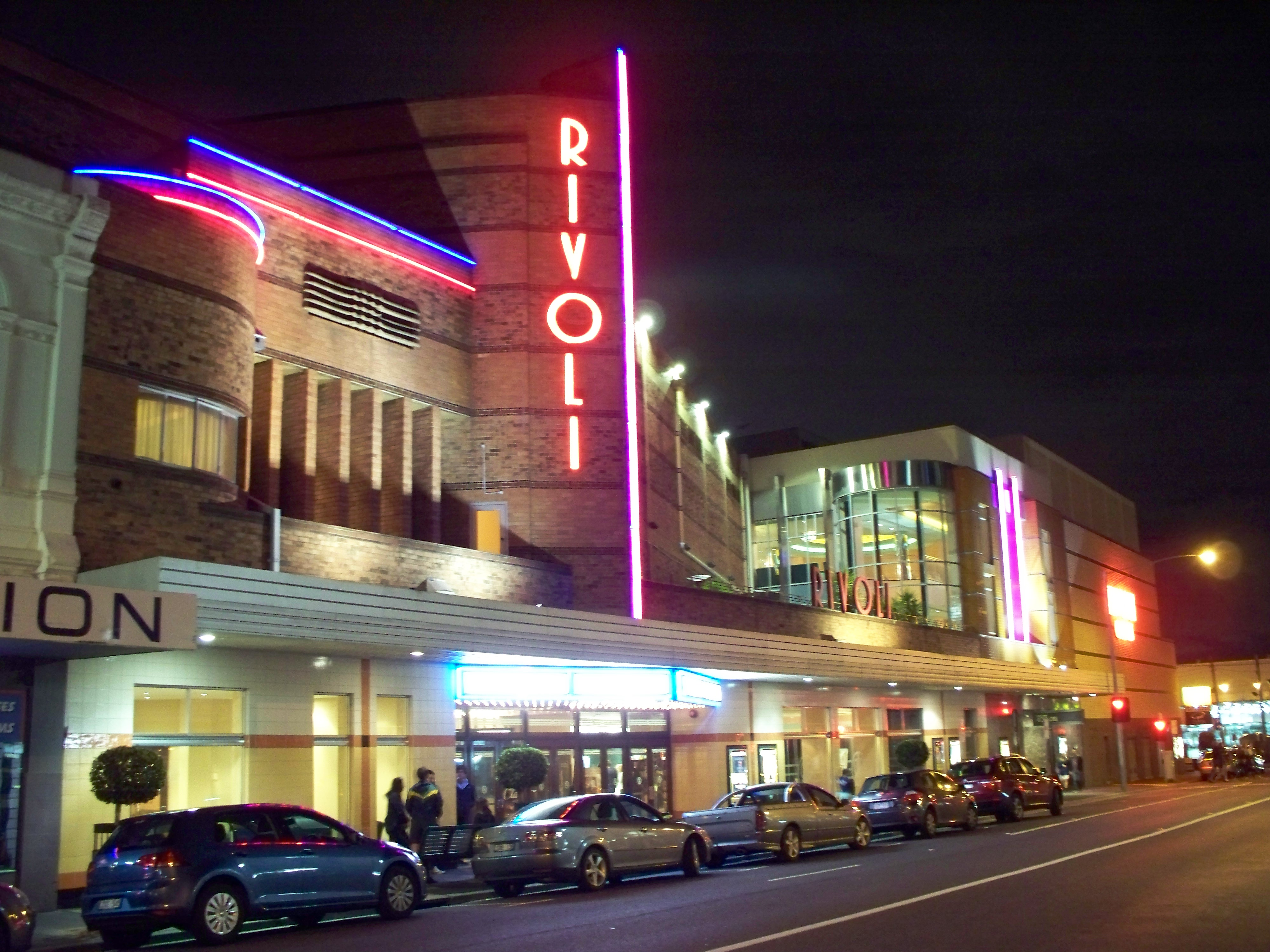 The eight-screen, heritage registered, free standing Rivoli Cinemas in Camberwell, an inner-suburb of Melbourne.